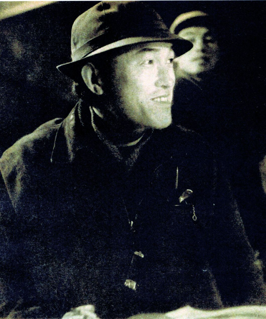 Toshio Sugie